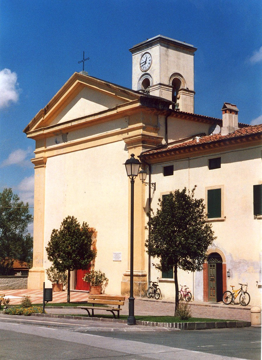 Church of Orciano Pisano, Tuscany, Italy